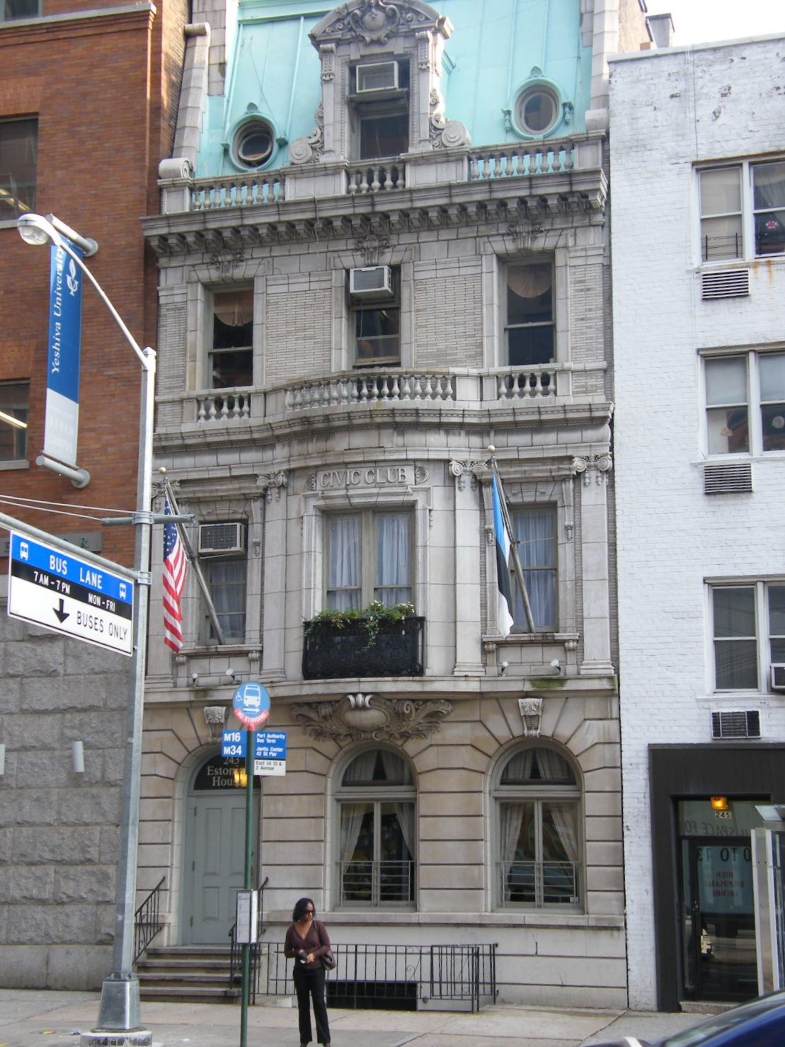 Former Civic Club, now New York Estonian House at East 34th Street in New York.